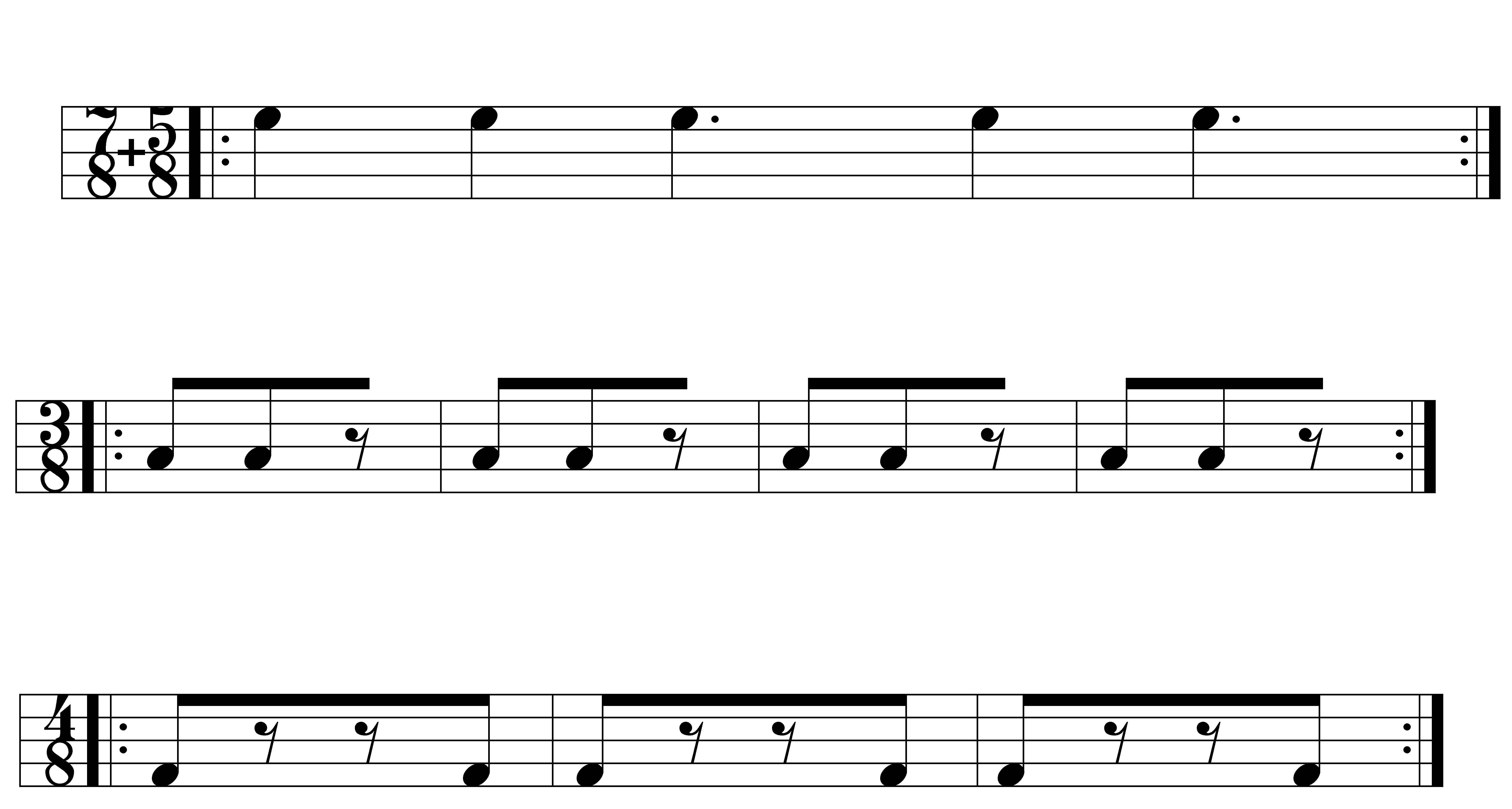 Anthony King polymeter representation of Yoruba drum ensemble.